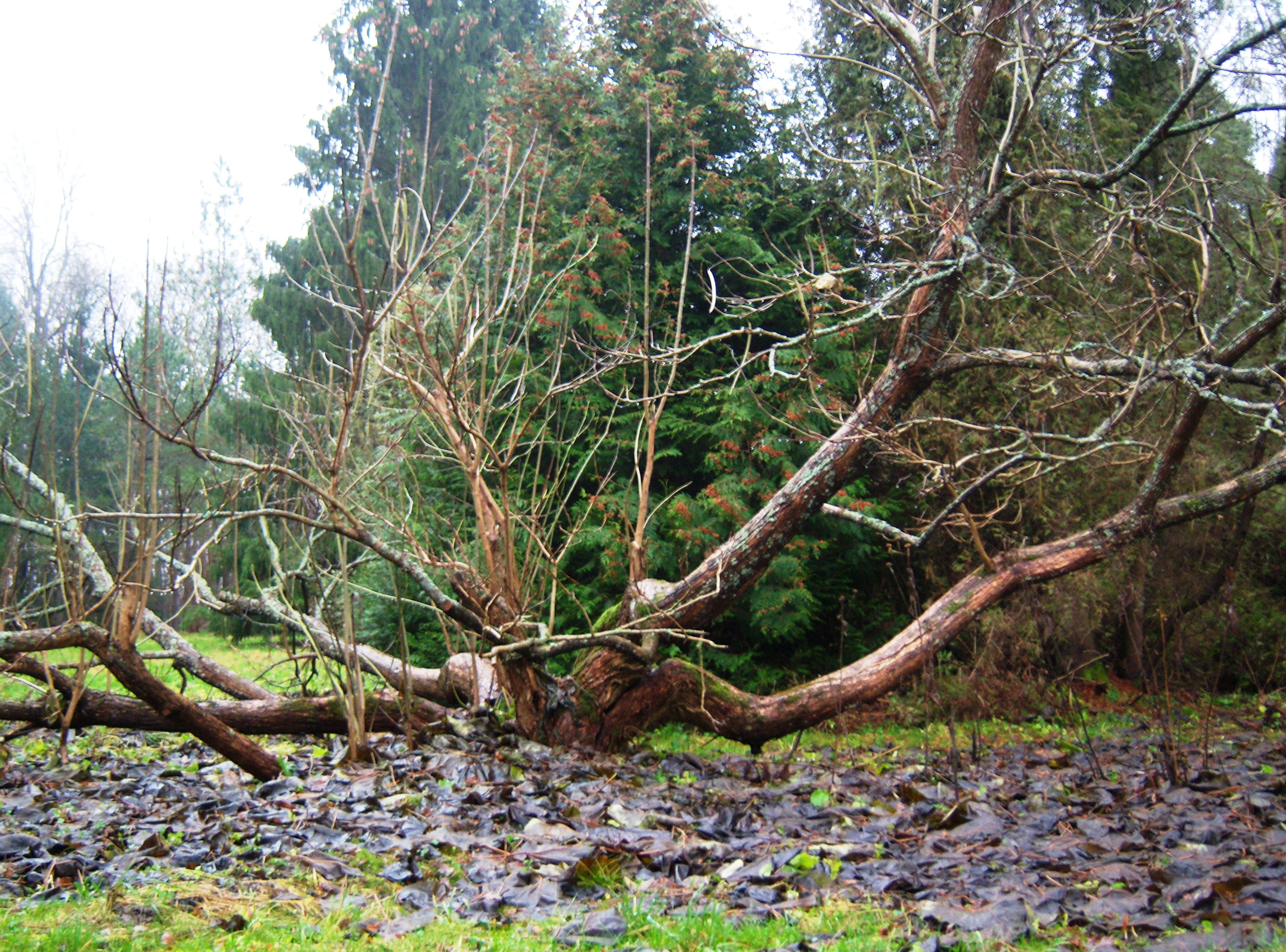 Katalpa in late autumn in Obelynės Parkas in Kamšos Botanical and Zoological Reserve, by T. Ivanauskas' house, Akademija, Kaunas district, Lithuania